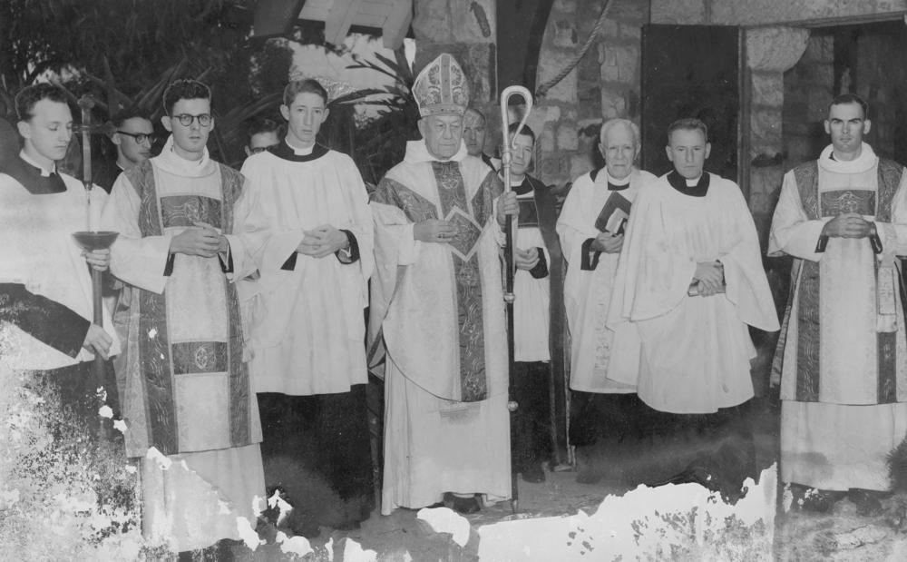 Archbishop Halse, anglican Archbishop with other clergy at the Bishopbourne Chapel, Brisbane, 1954 Reverend James Nott on the left, with Reverend Sydney Judd, right, outside Bishopsbourne Chapel with Archbishop Halse.